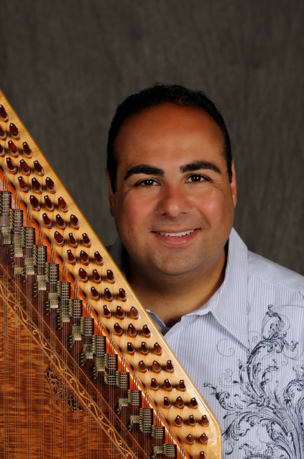 Ara Topouzian posing with one of his kanuns, a Middle Eastern laptop harp.